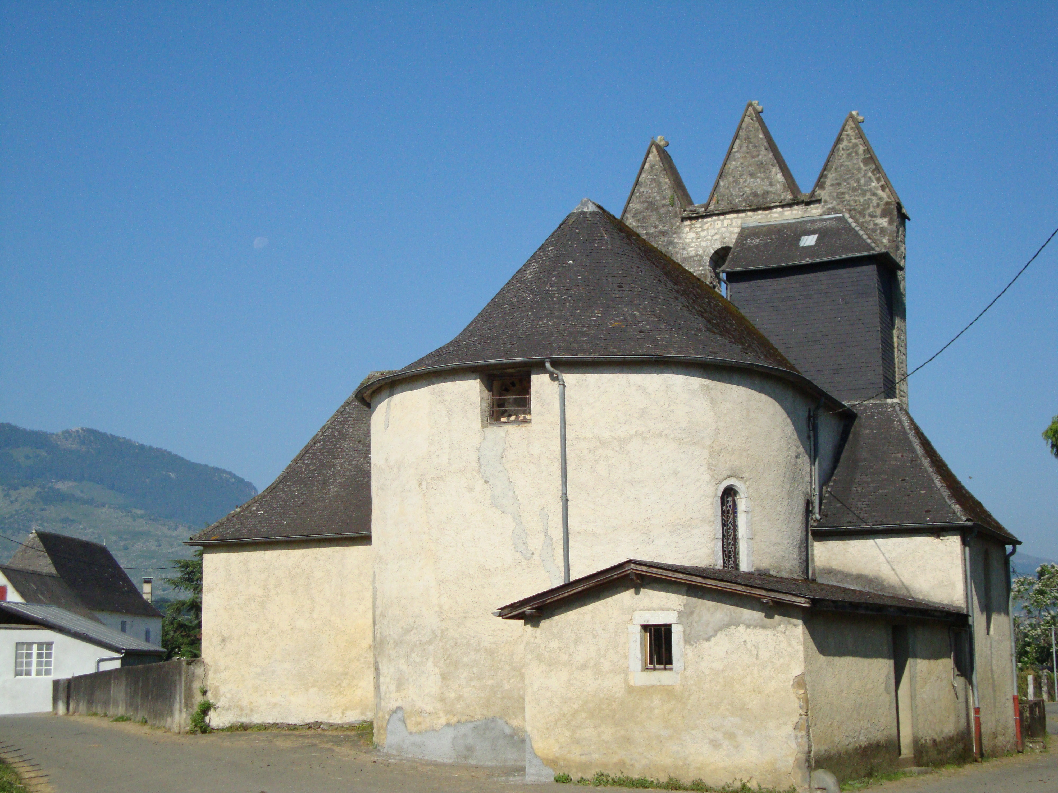 Sauguis (Sauguis-Saint-Étienne, Pyr-Atl, Fr) trinitarian church, apse